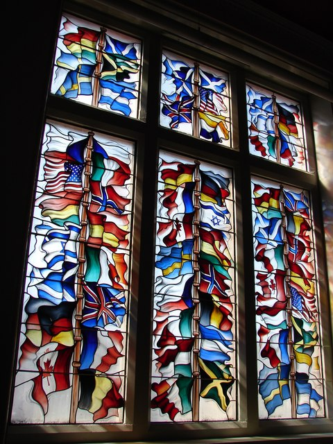 Pan Am 1988 Memorial Window This 1991 window in the Low Chamber of Lockerbie Town Hall commemorates Pan Am Flight 103 which blew up over Lockerbie on 21st December 1988, killing 259 passengers and crew and 11 people on the ground. The flags showing the nationality of the victims.